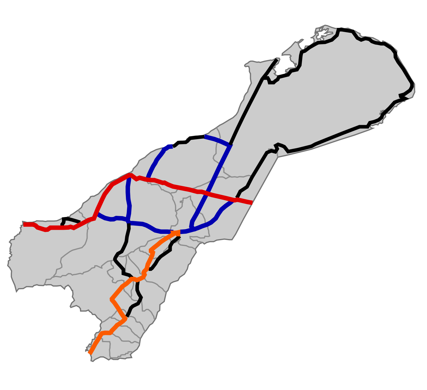 La Guajira roads